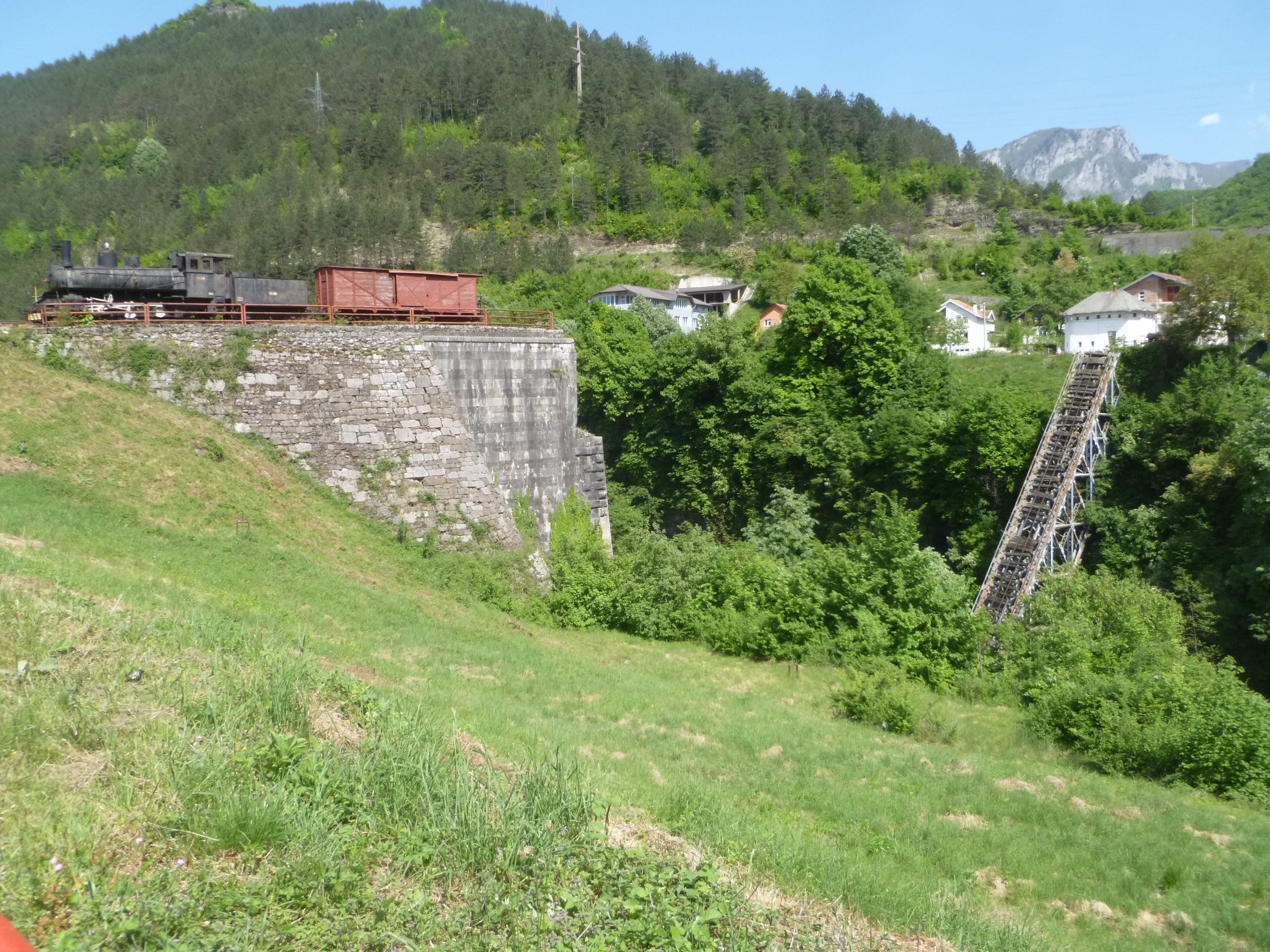 Jablanica: Battle at the Neretva